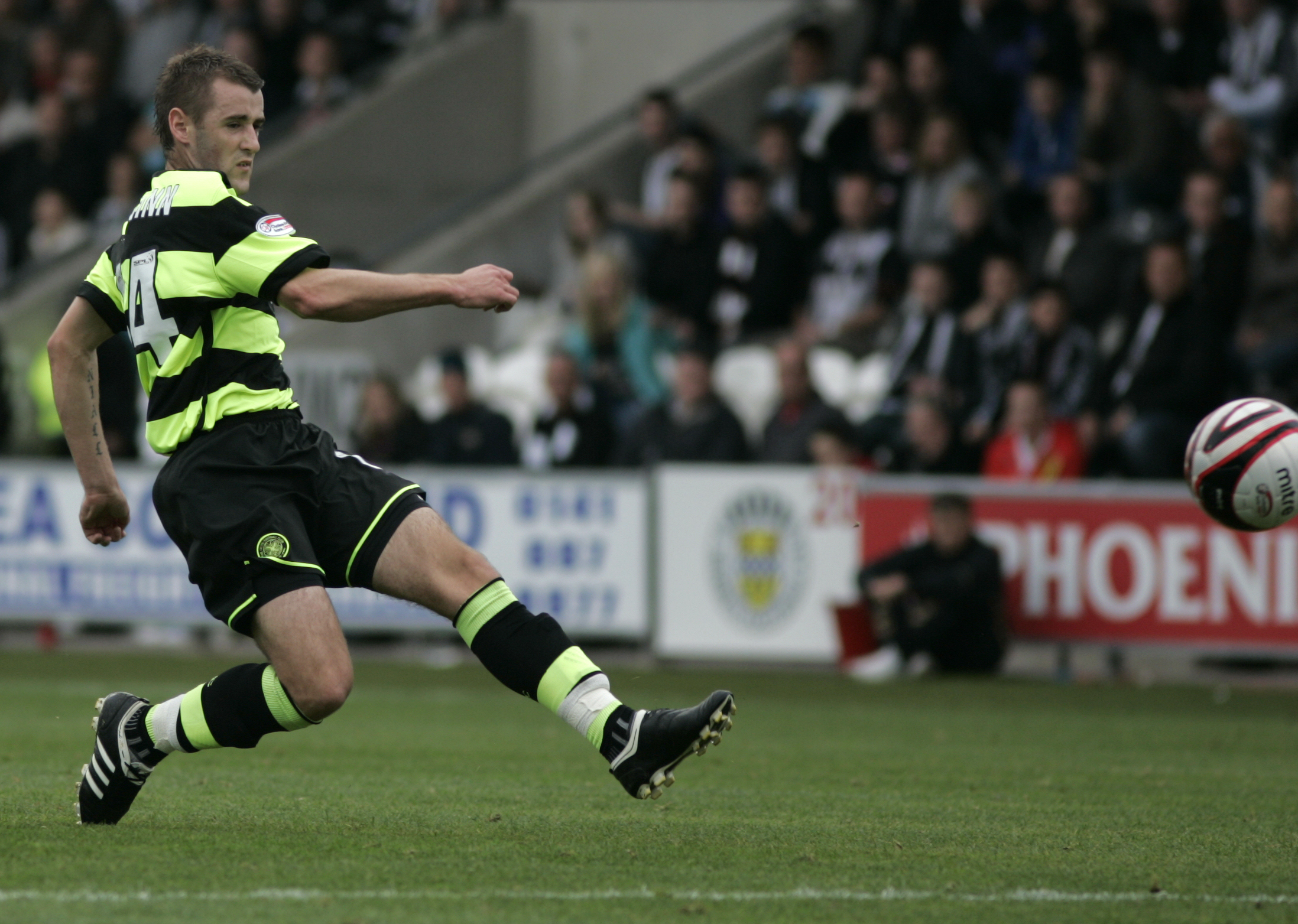 Niall McGinn